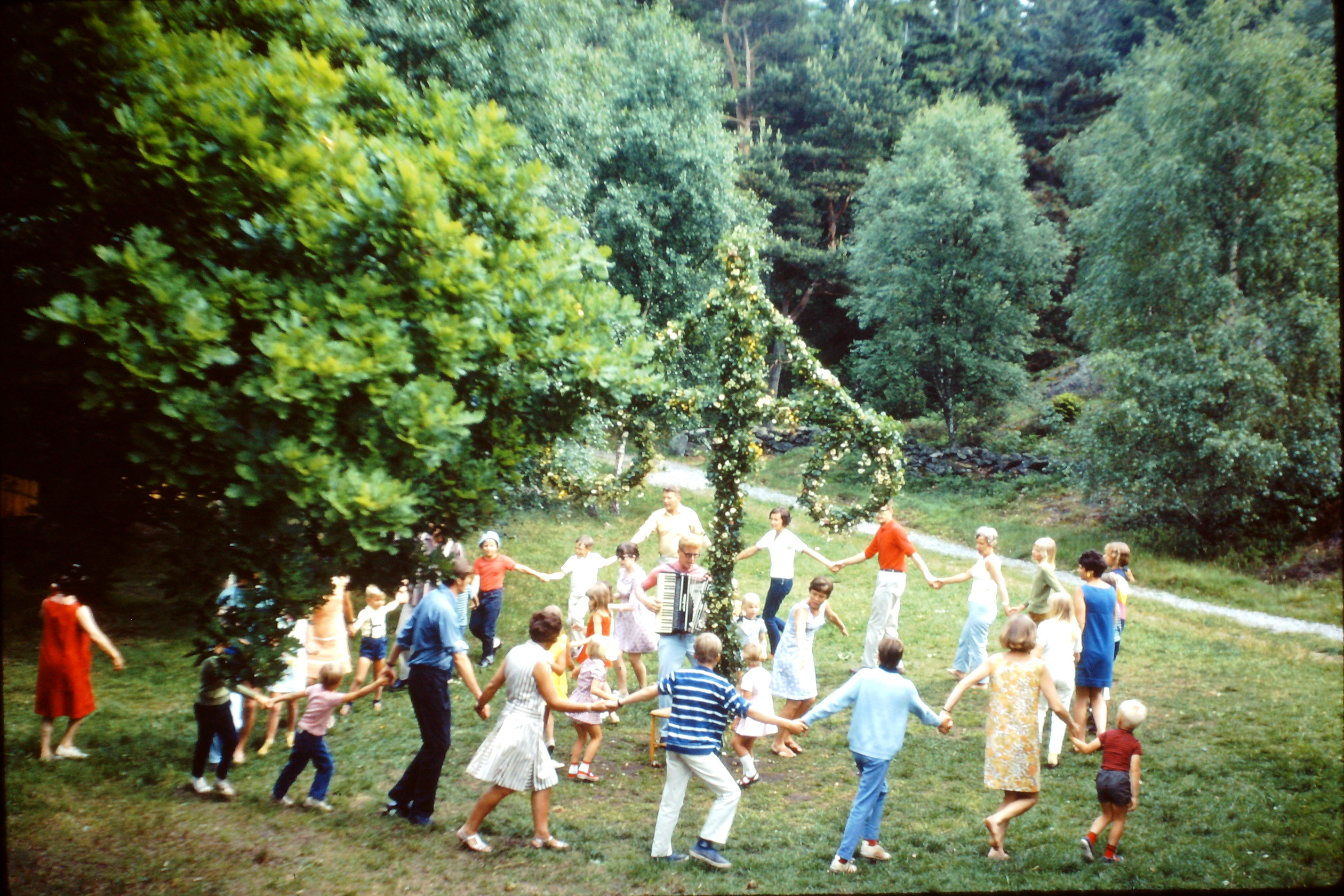 Midsummer celebrations at Årsnäs, which was started in 1963 as an intentional community on the west coast of Sweden, near Kode. The ownership of the 15 houses has since passed on through generations among the founding families. The community celebrates Midsummer yearly, starting by dances around the Maypole in the early afternoon, followed by the houses competing in games with different tasks each year, but often including e.g. nail hammering, log balancing, and darts. In the evening there is a dinner at the dance floor by the meadow including the year's first potatoes, soused herring and pickled herring, chives, sour cream, the first strawberries of the season, as well as beer and snaps for the grown-ups. All these images are scanned diafilms originally taken by Karin Aasma and Felix Aasma.